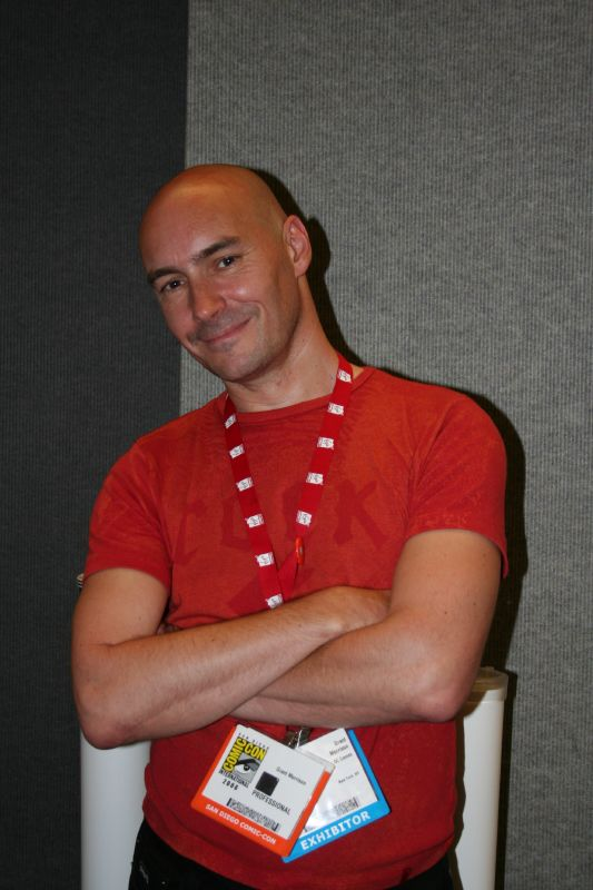 Grant Morrison, Comic-Con 2006